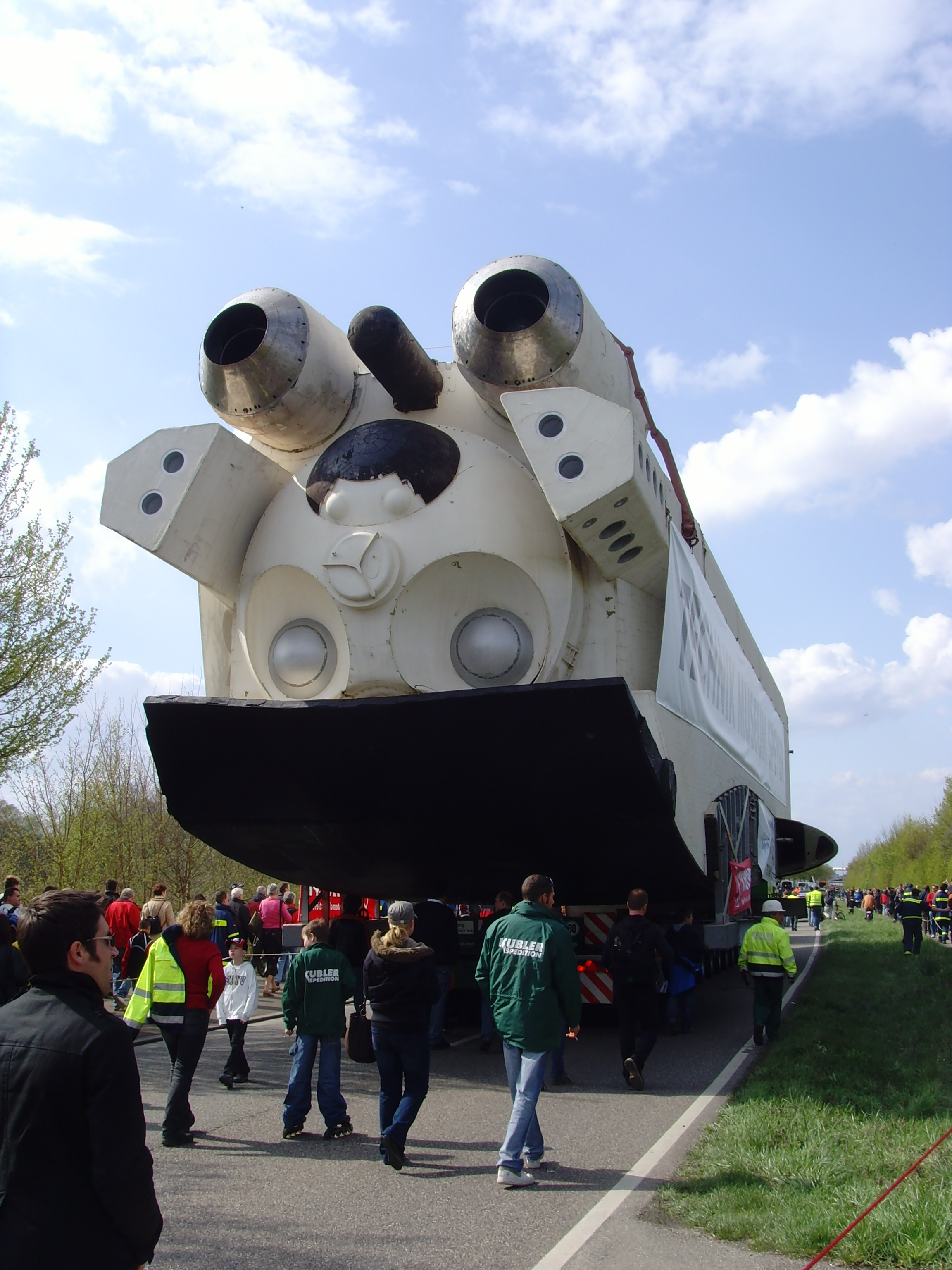 Space Shuttle Buran in Speyer